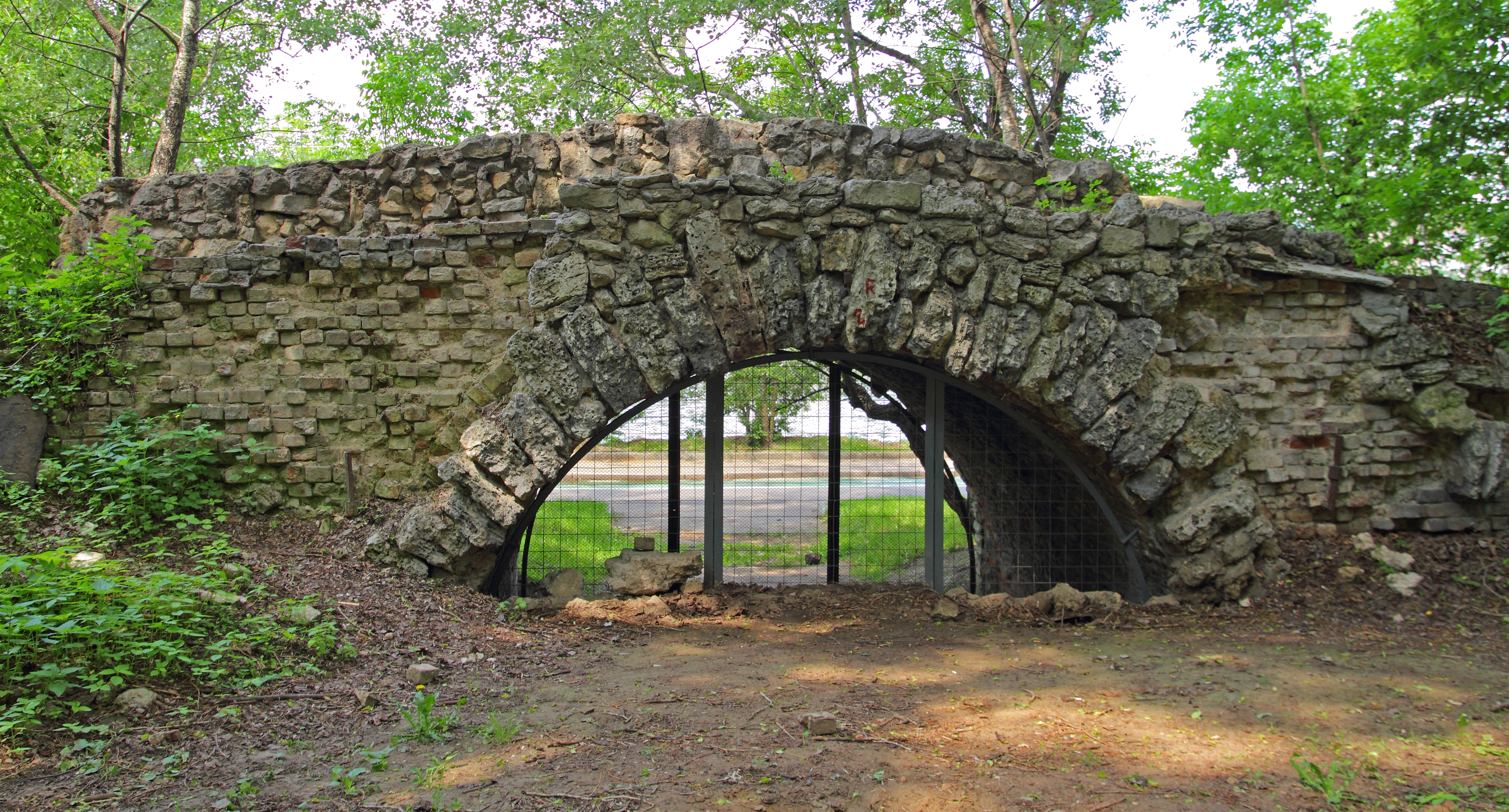 Moscow, Russia. Neskuchny Garden, Small Bridge.